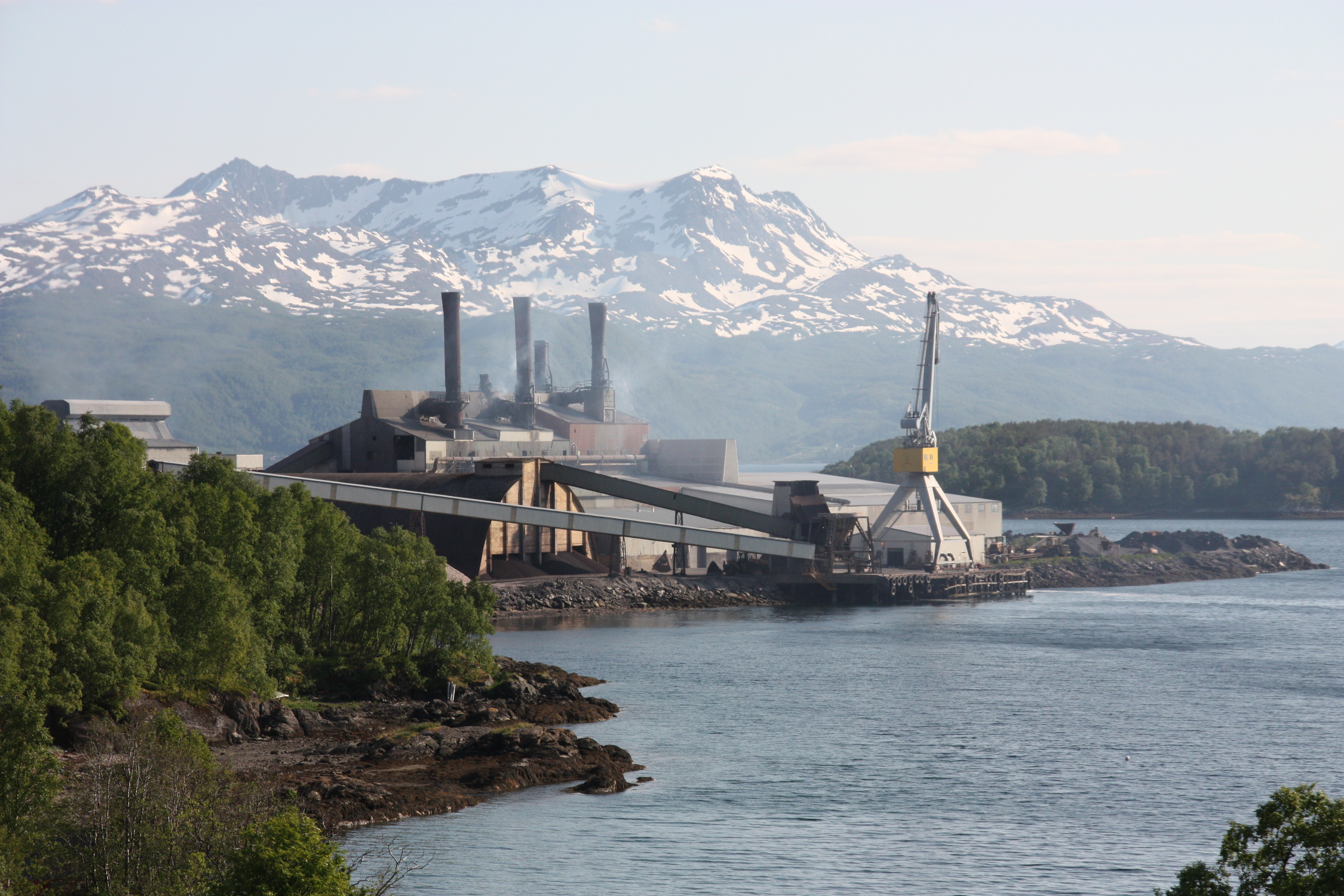 Finnfjord smelteverk in Finnfjordbotn in Lenvik, Norway.